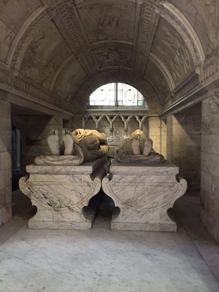 Tumba del rey Francisco I de Francia y la reina Claudia de Francia en la a basílica de San Denis.